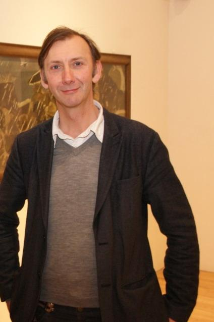 Keith coventry smiling